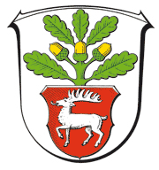 Coat of Arms of Dreieich